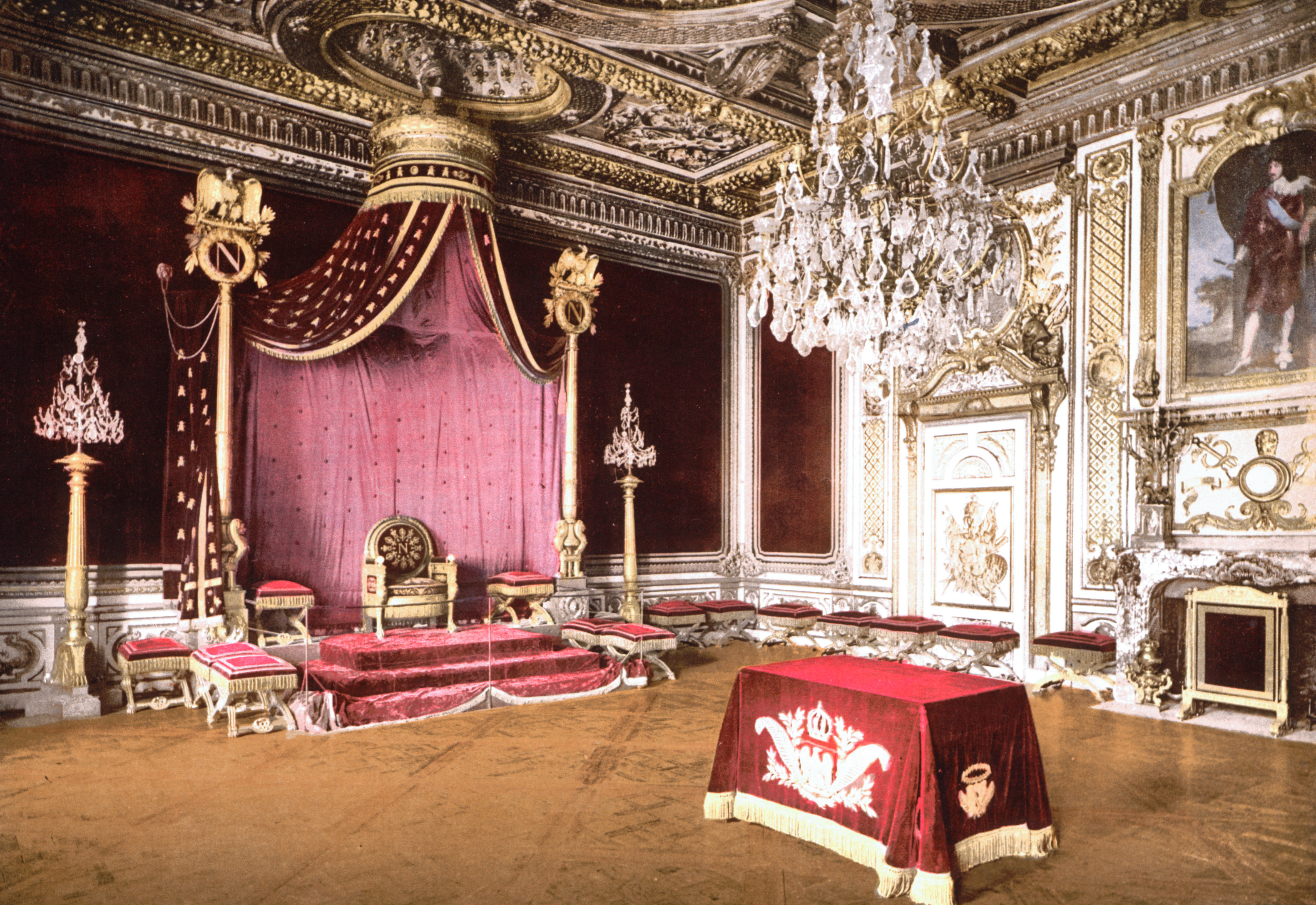 Château of Fontainebleau, throne room